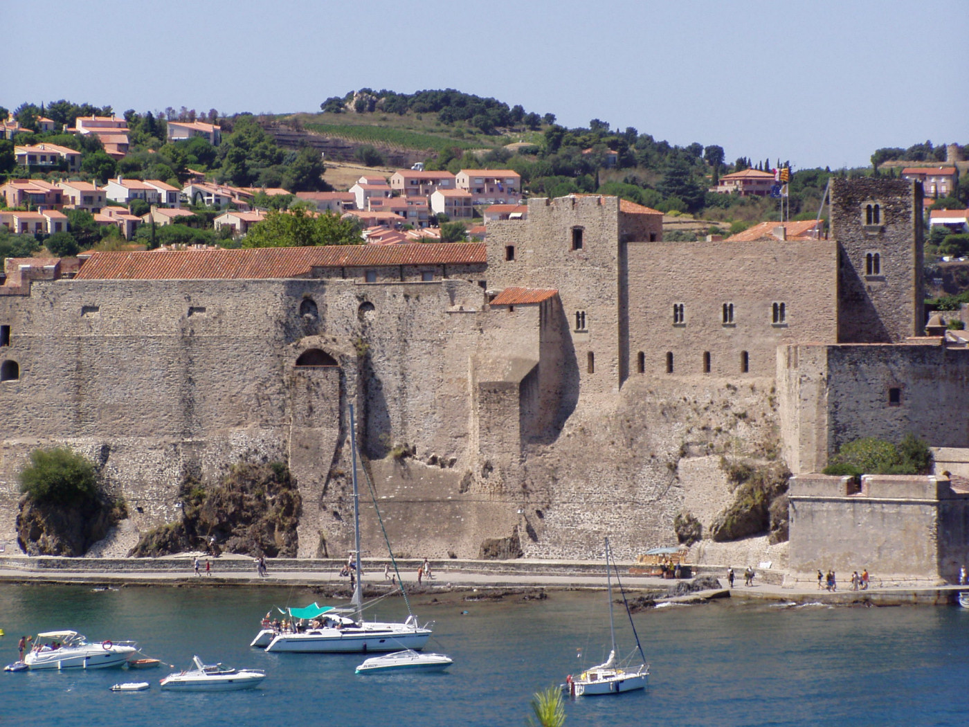 Château Royal de Collioure, Languedoc-Roussillon, France.